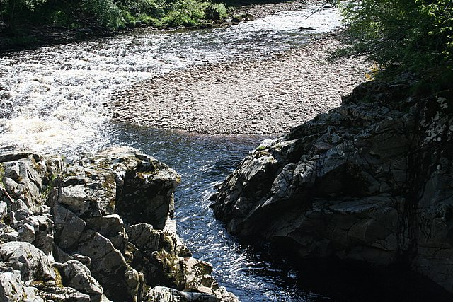 The Leap; Hardly Olympic standard these days!!!